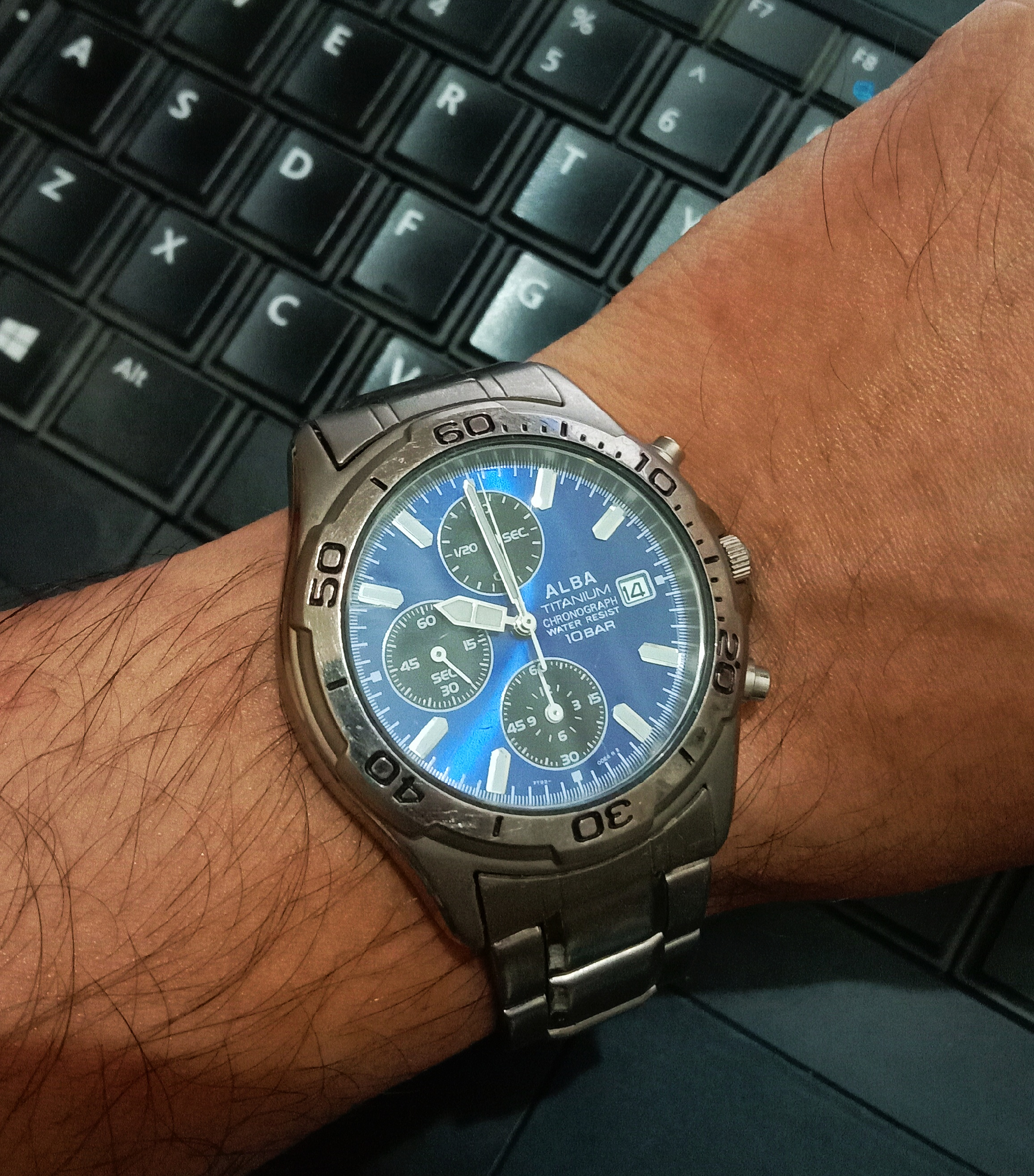 An Alba titanium 7T92 watch with a 1/20 second 12-hour Chronograph.